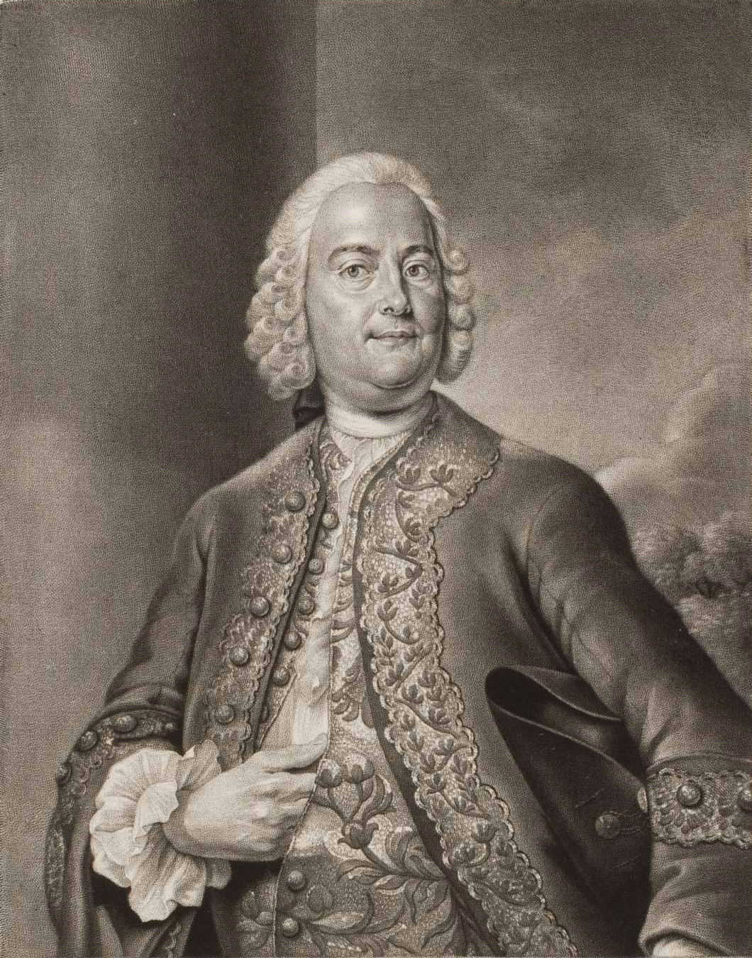 Depicted person: Carl Heinrich Graun